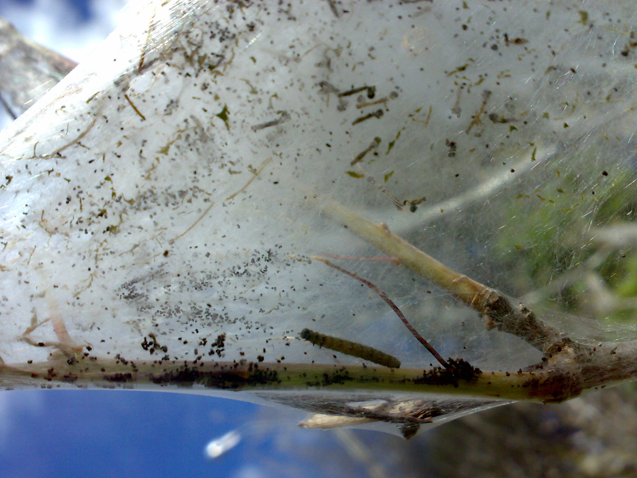 Heggemøll